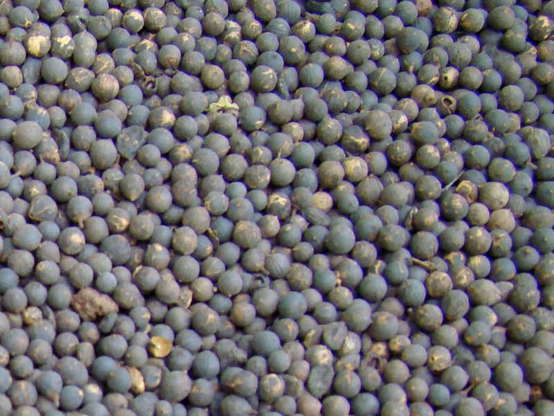 Own Work